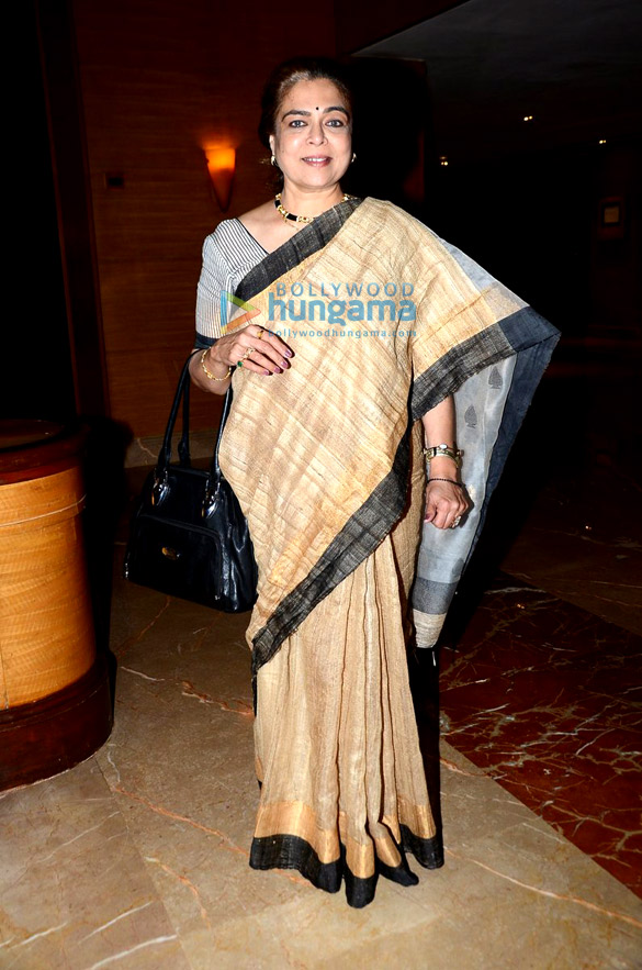 Reema Lagoo at art exhibition inaugurated by Ameesha Patel